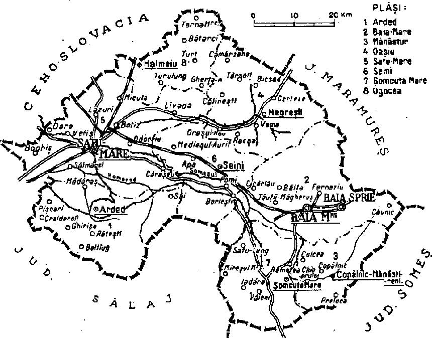 Map of Satu Mare interwar county, Kingdom of Romania (1938).